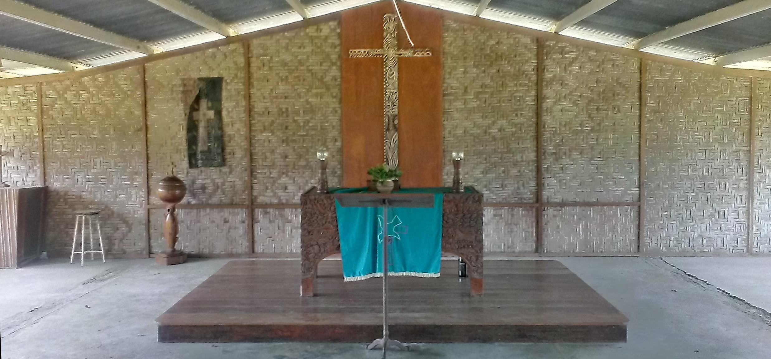 Photo of inside the Lutheran Church at Malahang Mission Station, Lae, Morobe Province. Photo taken 30 January 2014